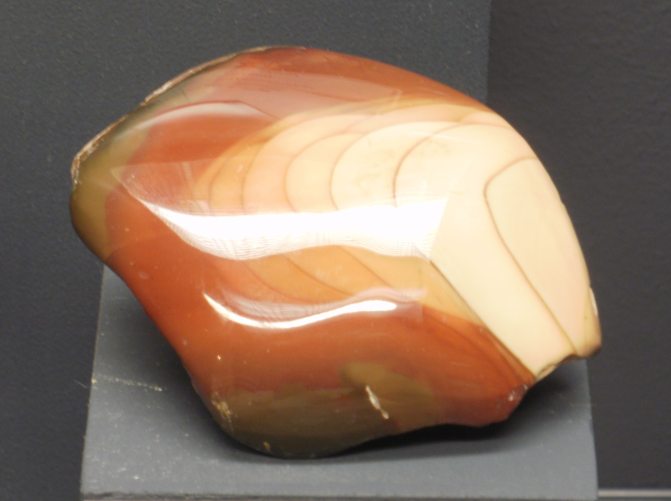 Picture jasper from Bruneau, Idaho. Held in the A. E. Seaman Mineral Museum. This jasper is from inside local thundereggs